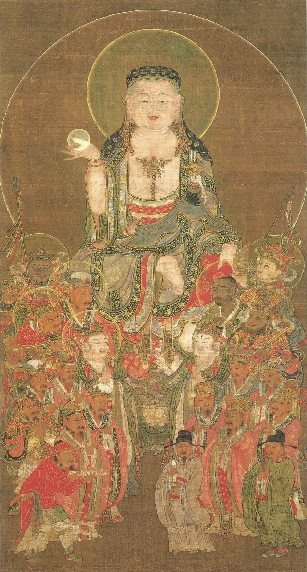 Ksitigarbha with the Ten Kings of Hell, Seikado Bunko Art Museum, Tokyo, Japan